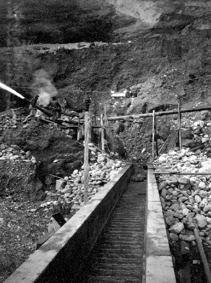 Photo taken 1901 Photograper Unknown BC Archives #I-55939 [1]